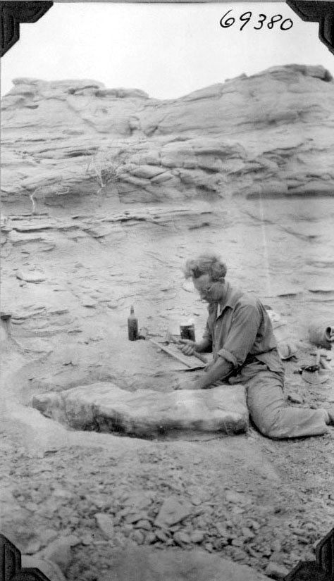 Dr. Rudolf Stahlecker at Pronothrotherium prospect. 1926. Name of Expedition: 2nd Captain Marshall Field Paleontological Expedition Participants: Elmer S. Riggs (Leader and Photographer),Robert C. Thorne (Collector), Rudolf Stahlecker (Collector), Felipe Mendez Expedition Start Date: April 1926 Expedition End Date: November 1926 Purpose or Aims: Geology Fossil Collecting Location: South America, Argentina, Catamarca Original material: album print Digital Identifier: CSGEO69380 Learn more about The Field Museum's at Library Photo Archives